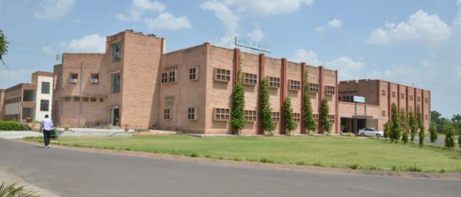 Campus of the National Law University, Jodhpur